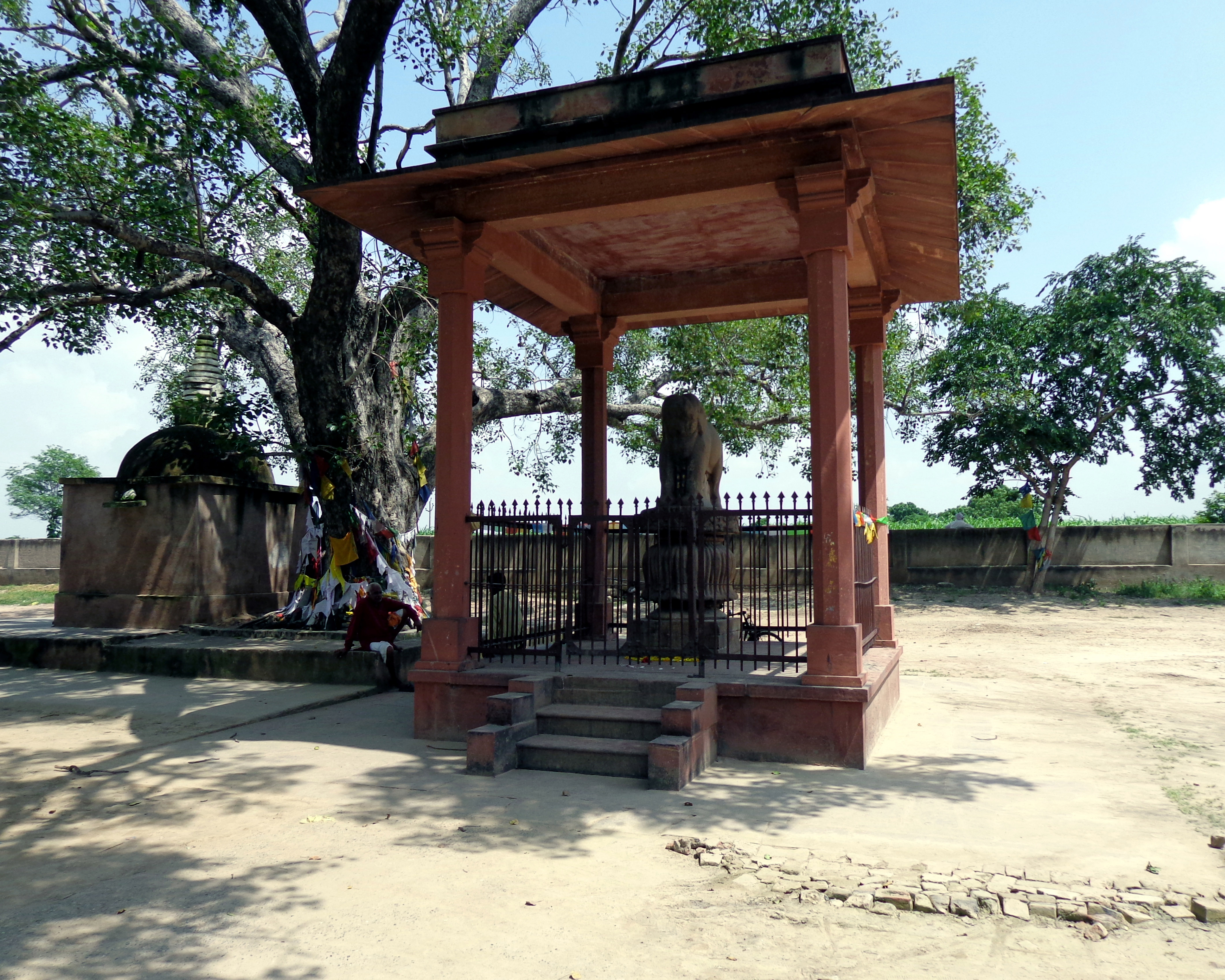 Ancient Site at Sankissa, Farrukhabad